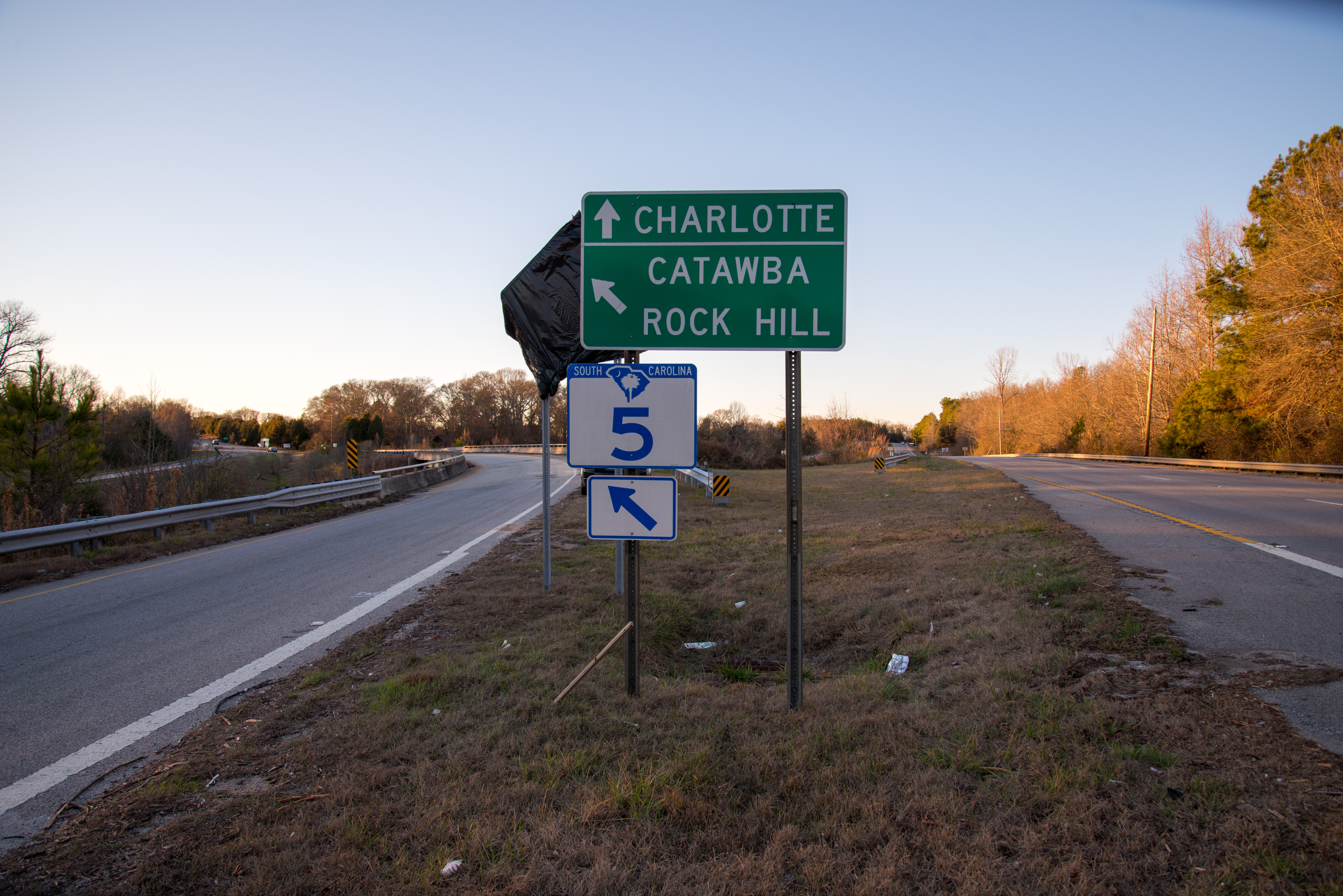 Left exit on northbound US 521, SC 5 heads towards Catawba and Rock Hill. Interchange located near Van Wyck, South Carolina.